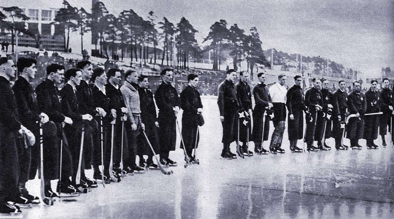 Bandy final teams, HIFK of Helsinki (right) and YVPS of Enso (left) at the beginning of the game at Helsinki Pallokenttä